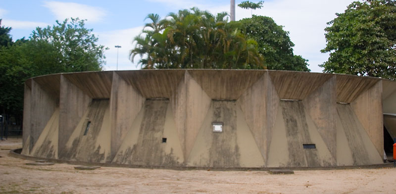 Vista externa do Museu Carmen Miranda em 2007.